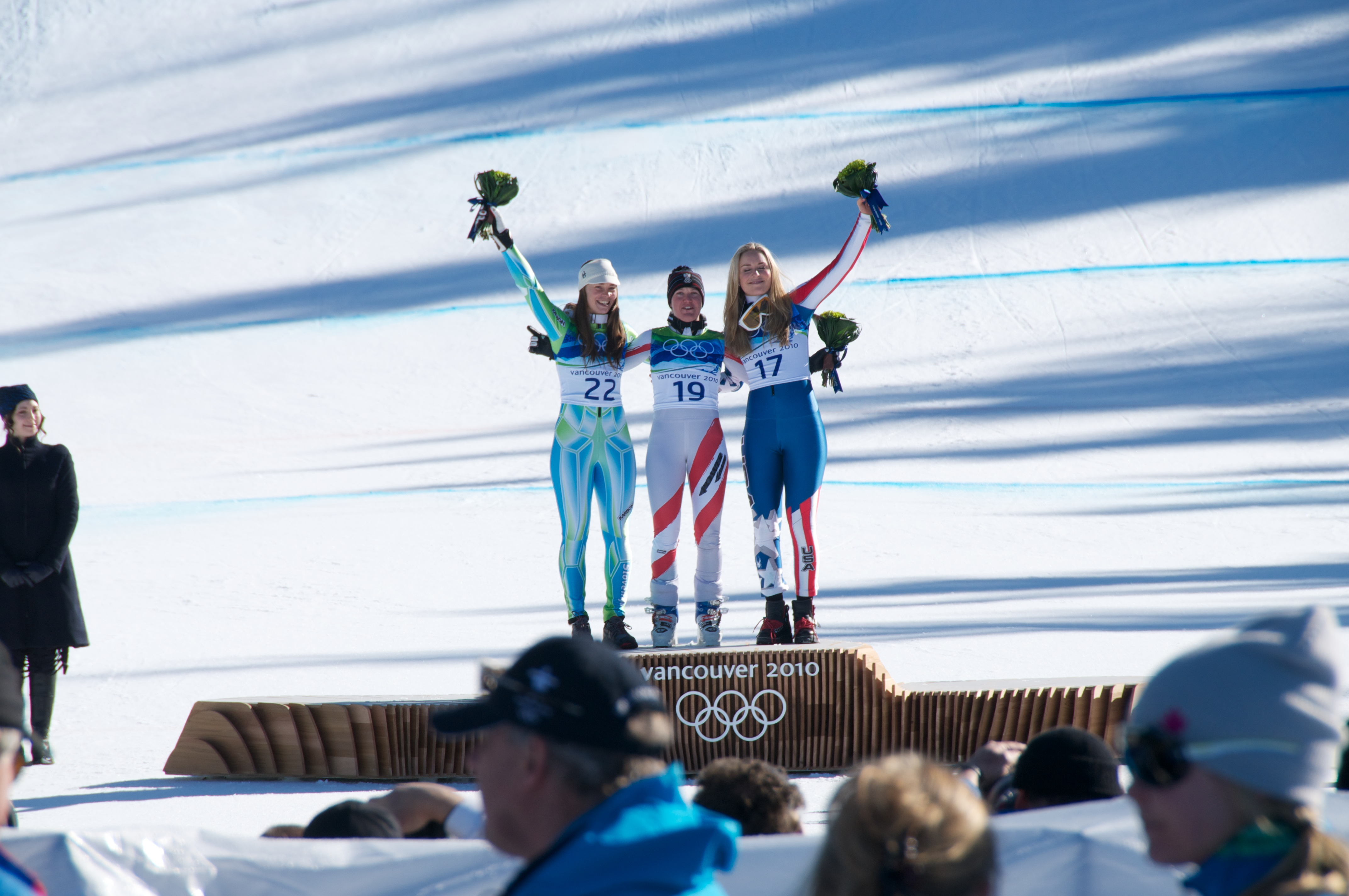 Day 9 of the Vancouver 2010 Winter Olympics. Women's Super G at Whistler Creekside.